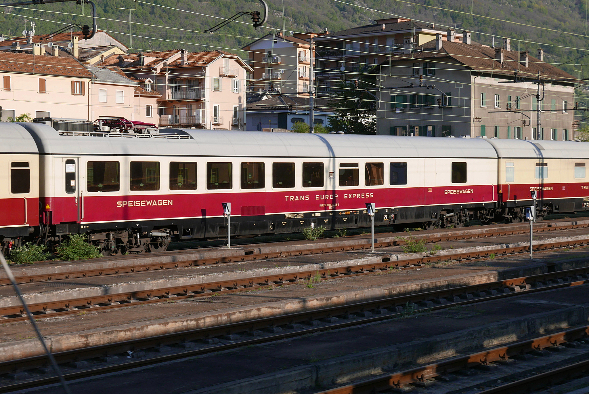 AKE WRmz 56 80 88-94 306-9 D-AKE at Domodossola railway station.